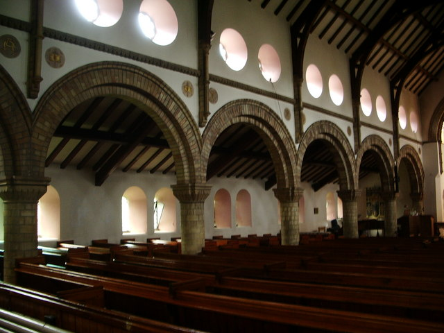 St Paul's Parish Church Scotforth, Interior